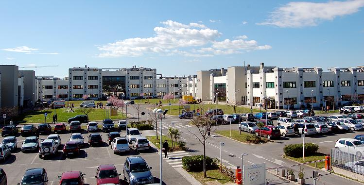 CNR Pisa